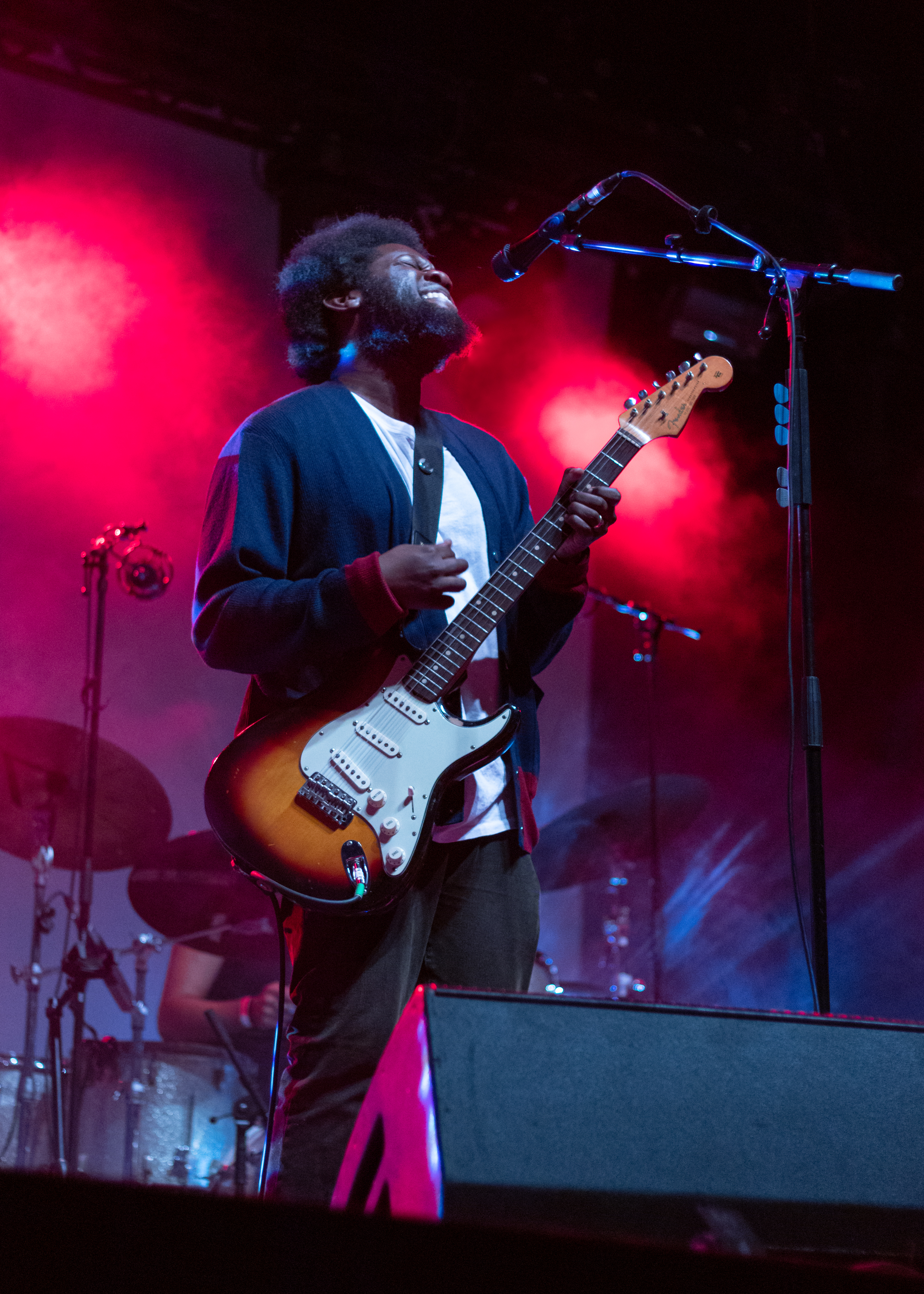 Michael Kiwanuka on the Mainstage at Haldern Pop Festival 2019.